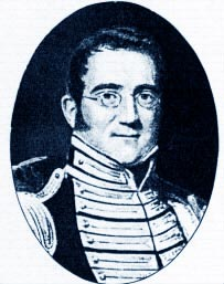 This is a portrait of Frederick Chidley Irwin (1788–1860), acting Governor of Western Australia from 1847 to 1848.